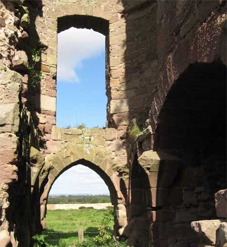 Image of the ruins of Twizell Castle in early 2009.